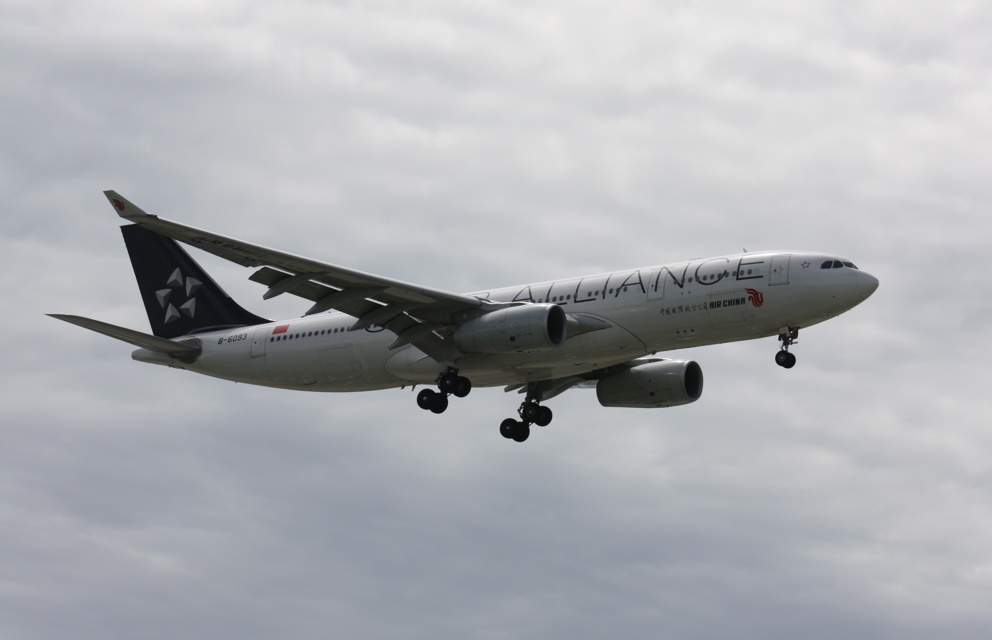 An Air China Airbus A330-243, in Star Alliance livery, landing at Vancouver International Airport